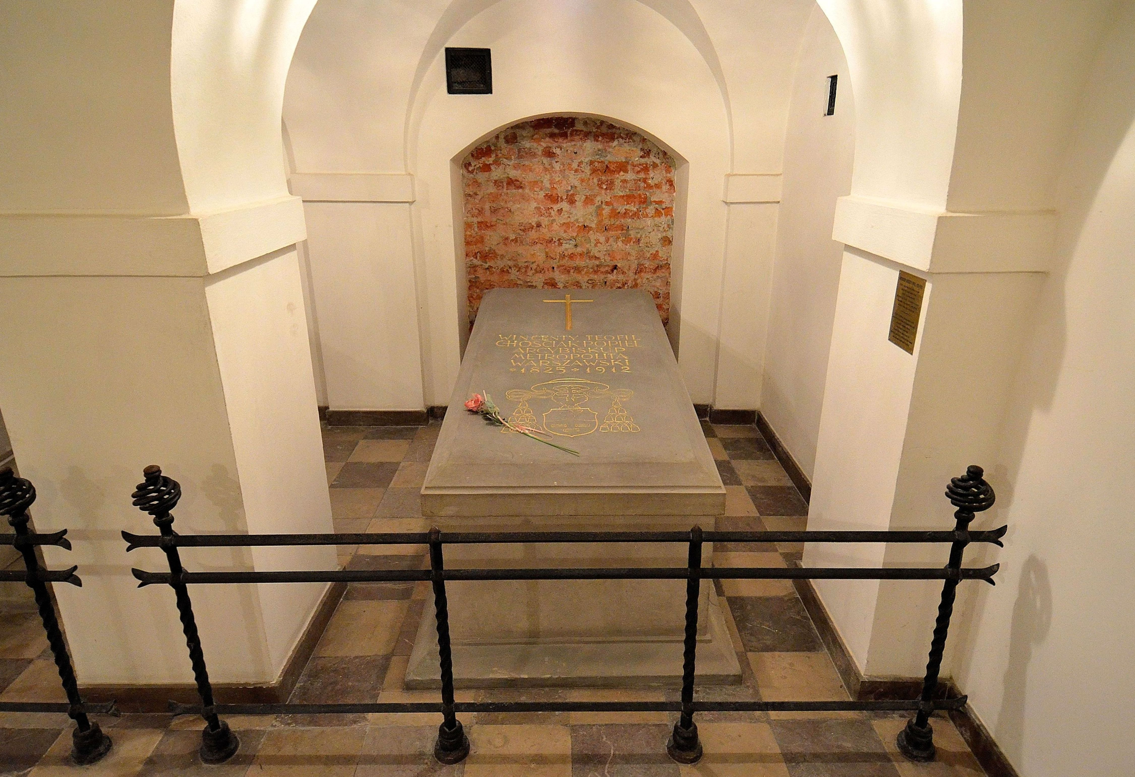 Tomb of Wincenty Teofil Popiel in the Warsaw archbishops' crypt in St. John's Archcathedral in Warsaw